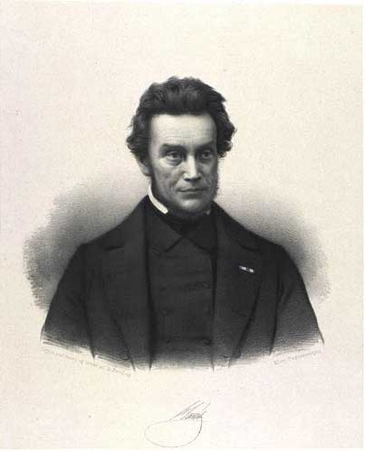 Christian Jørgen Hauch (1795-1859), Danish jurist and civil servant